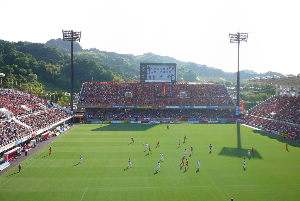 Nihondaira Sports Stadium is a multi-use stadium in Shimizu-ku, Shizuoka, Japan.